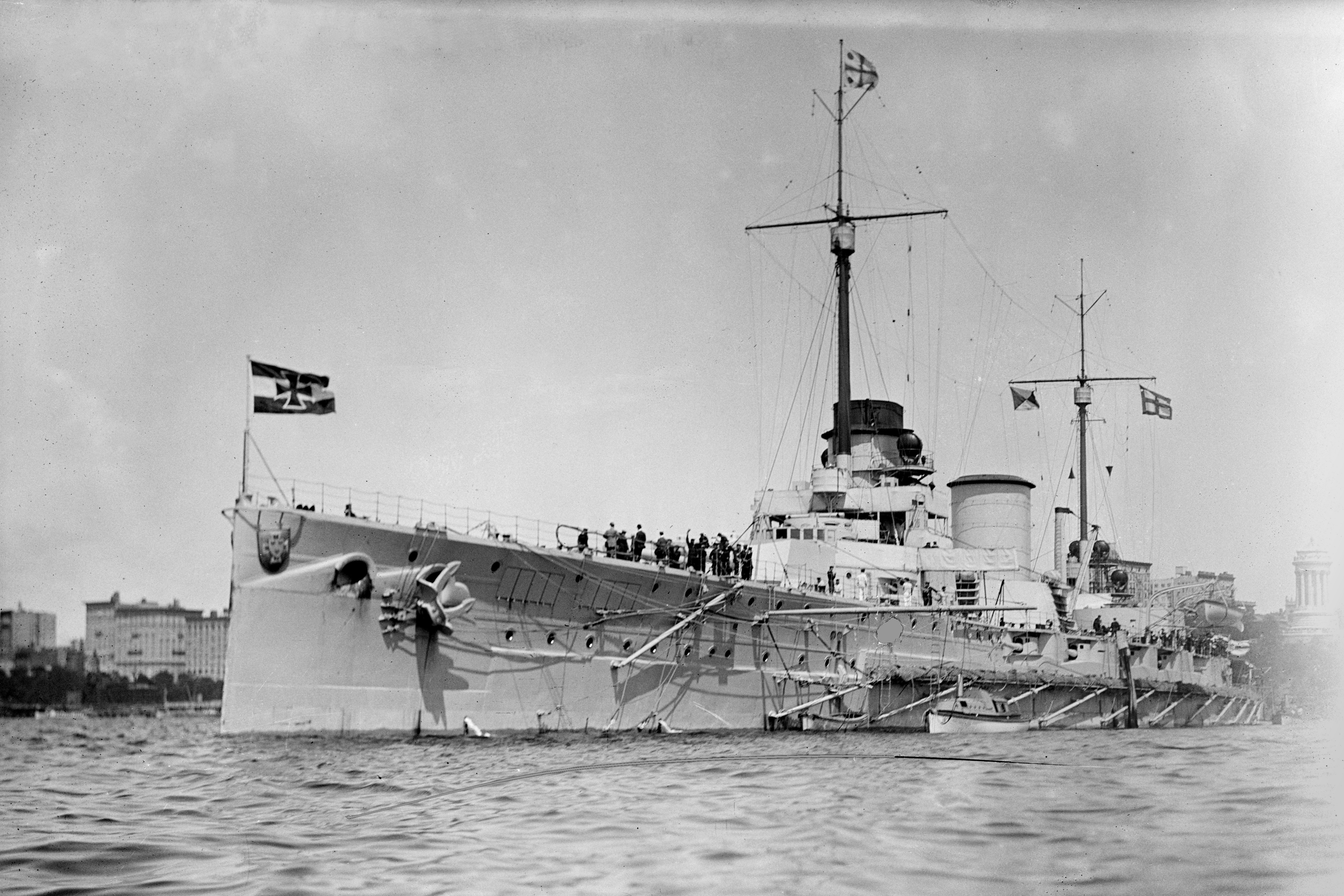 German Battlecruiser SMS Moltke visiting New York in 1912.